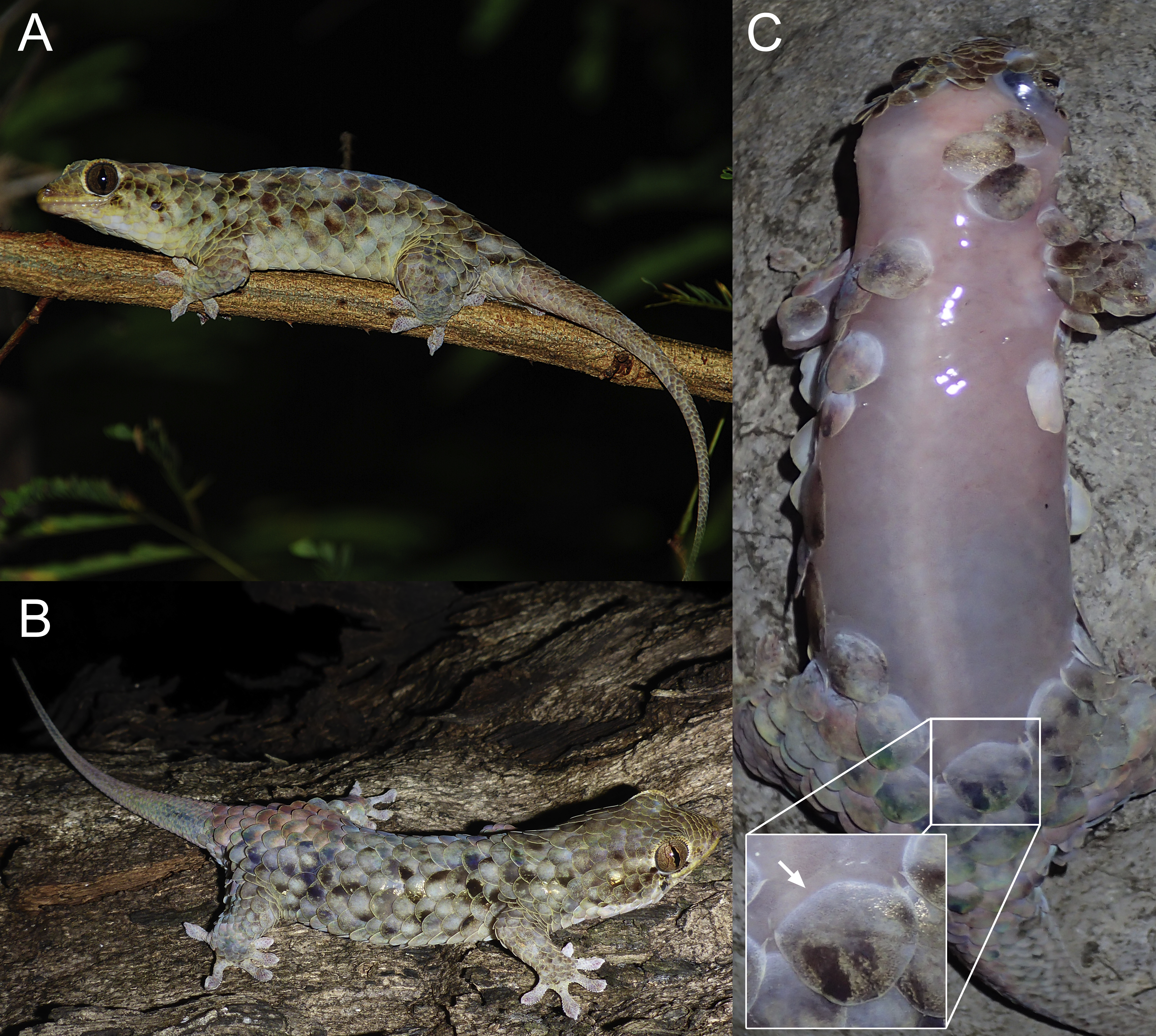 (A) A specimen observed by A. Anker (photograph used with permission); (B) a specimen observed by FG, and (C) a specimen photographed after scale loss, with inset indicating the transparent ‘tear zone’ at the base of a scale. None of the photographed animals were collected, but their attribution to G. megalepis is clear on the basis of the large size of their scales. Note that the tails of all three specimens are regenerated.